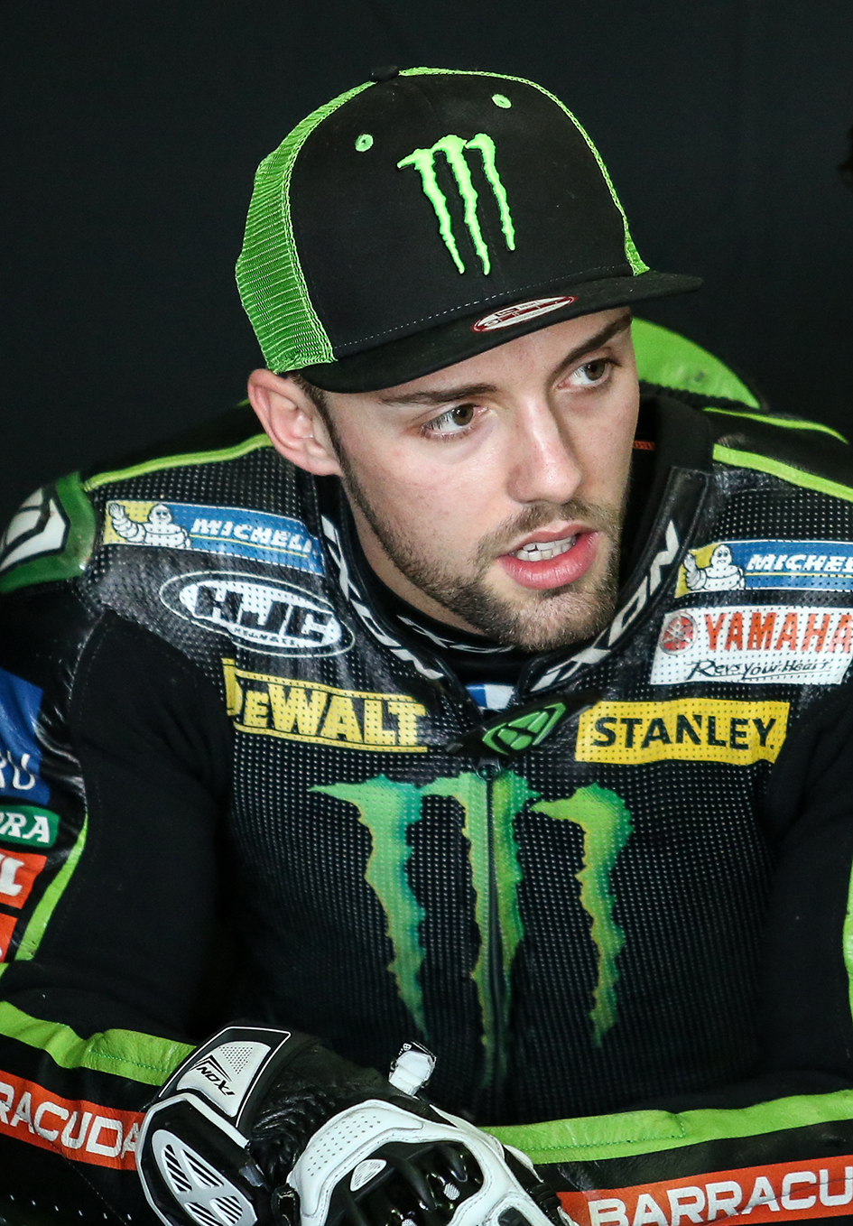 Jonas Folger at Phillip Island (AUS) 2017 MotoGP Winter Test